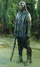 Scope and content: The original finding aid described this photograph as: Original Caption: This fierce looking American Indian is just one statue at the Peteetneet Academy and Museum. Location: Payson, Utah (40.044° N 111.725° W) Status: Public domain.